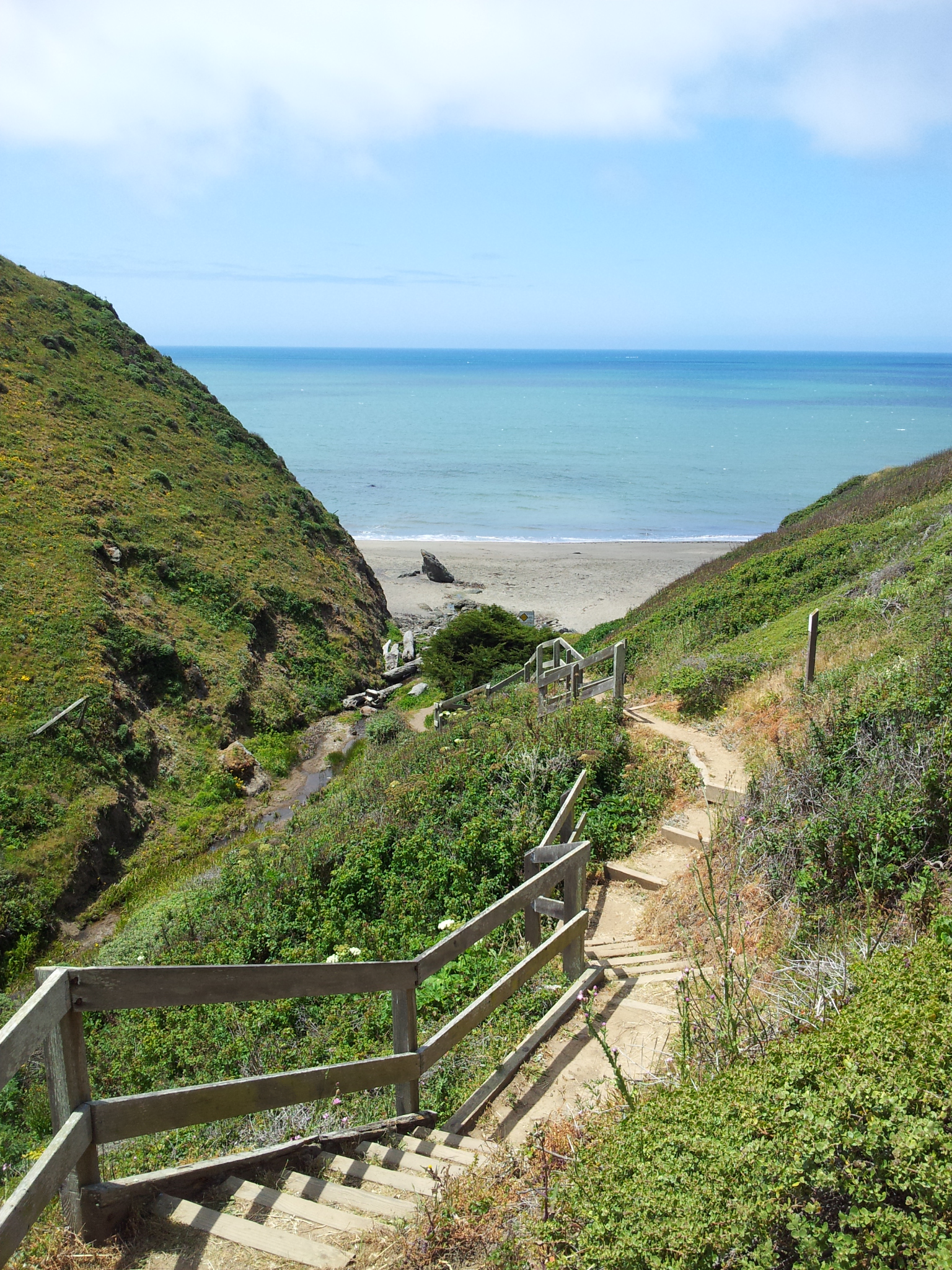 The lower end of Sonoma County Regional Parks Department Shorttail Gulch Coastal Access Trail south of Bodega Bay, California.